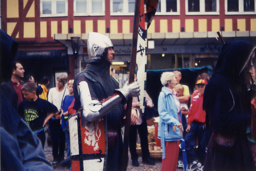 From the European Medieval Festival 1997 Photography by Rasmus Kongshøj